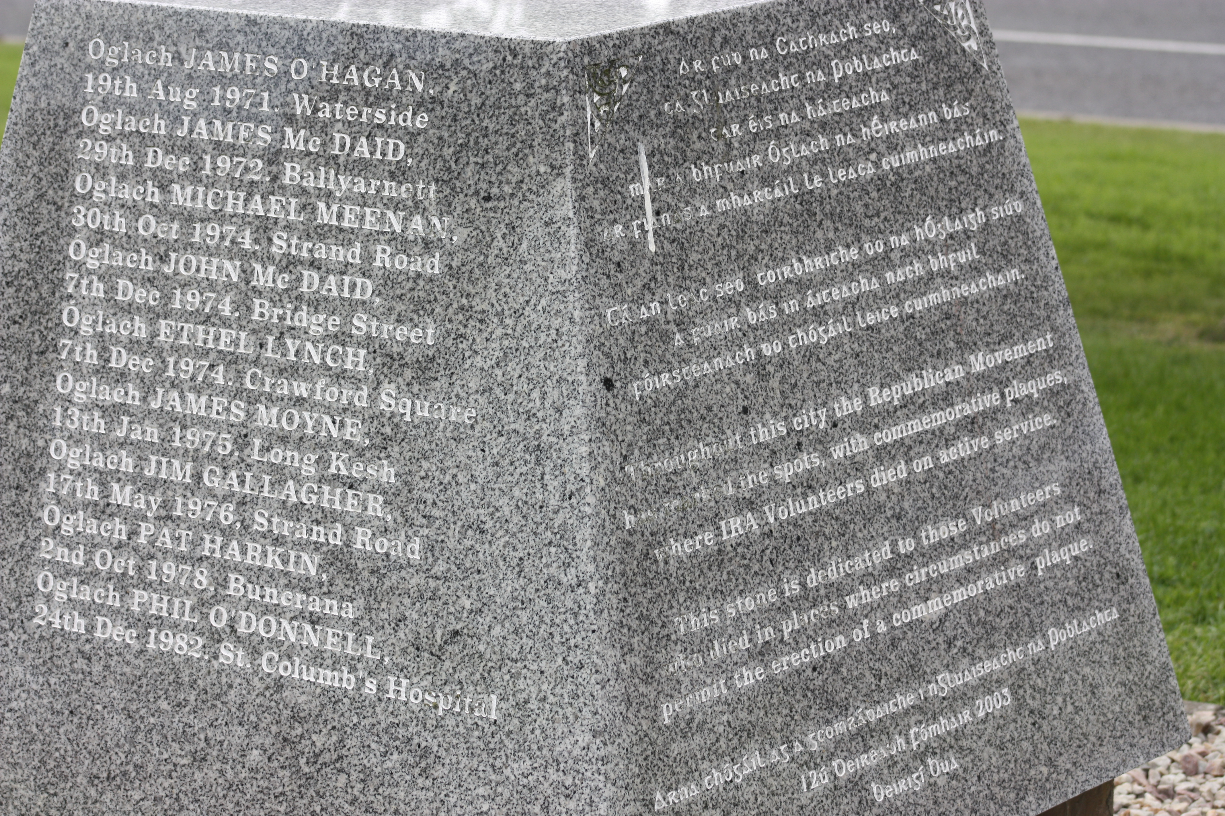 Memorial stone, Bogside, Derry, County Londonderry, Northern Ireland, August 2009